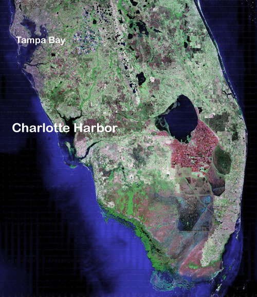 A Landsat satellite photograph of the southern Florida peninsula with Charlotte Harbor and Tampa Bay labeled.